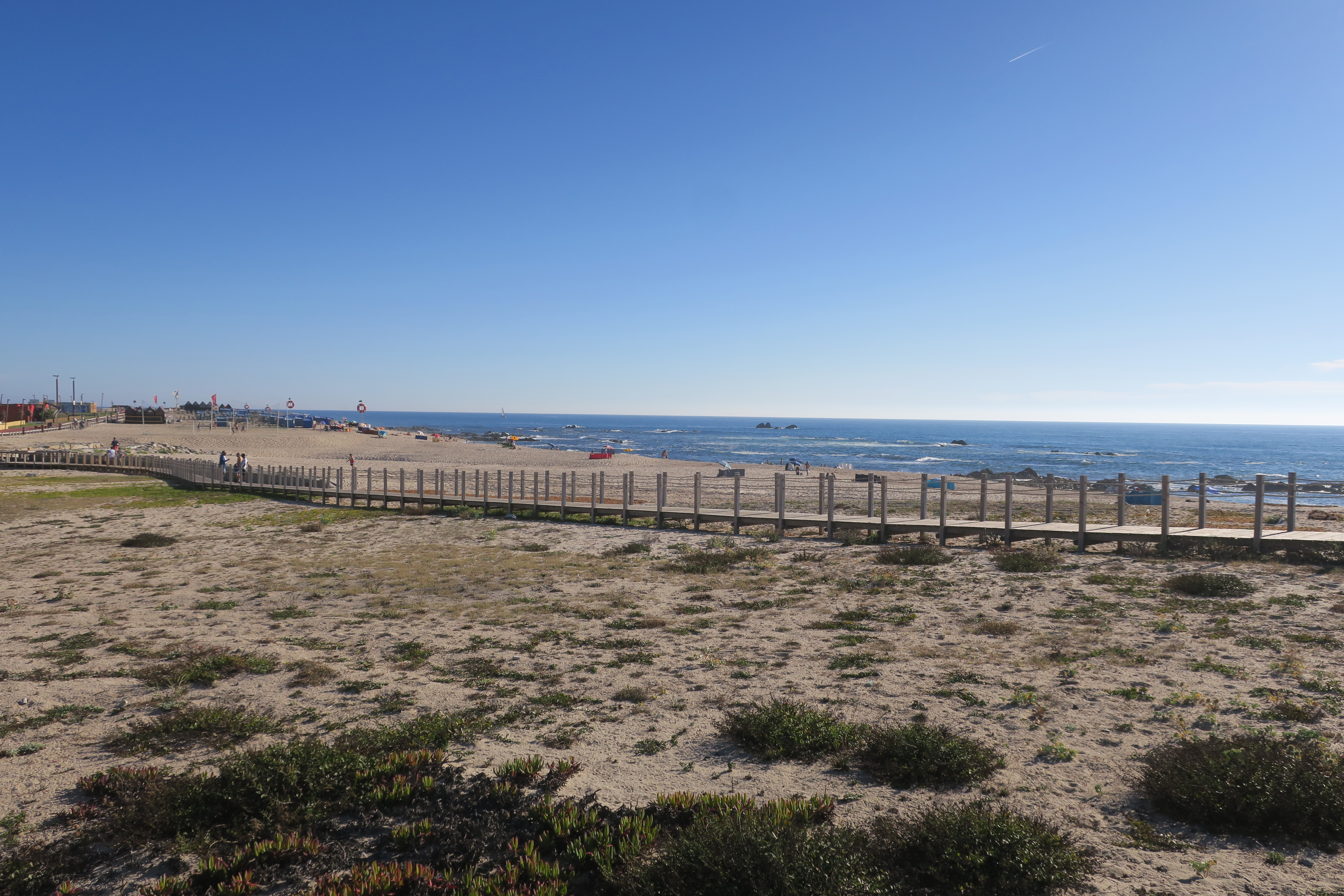 Praia do Esteiro, Povoa de Varzim